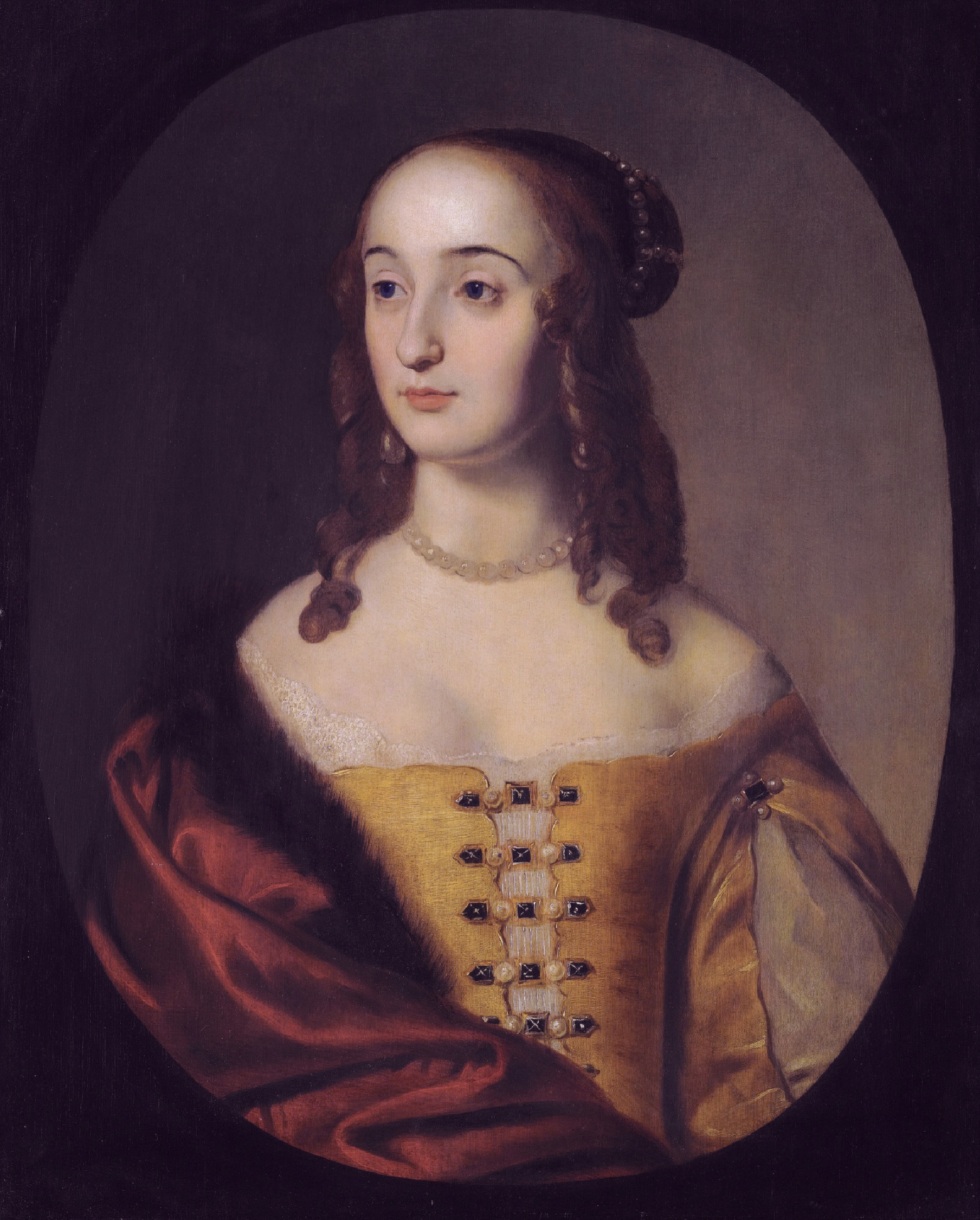 Portrait of Henriette Marie of the Palatinate (1626-1651)